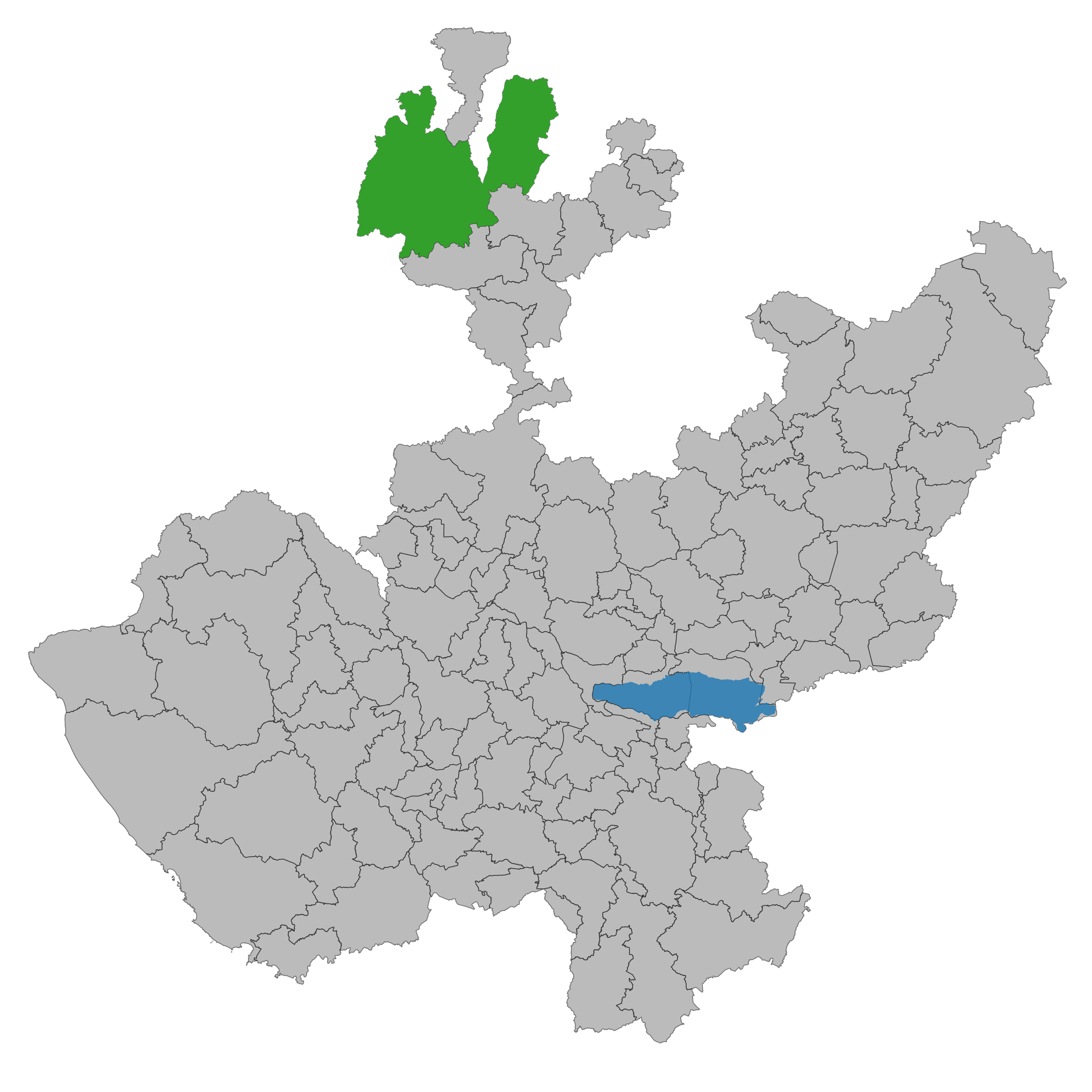 Municipality of Jalisco. Prepared with the software QGIS version 2.8.2 Wien & with information of SCINCE 2010 version 05/2013